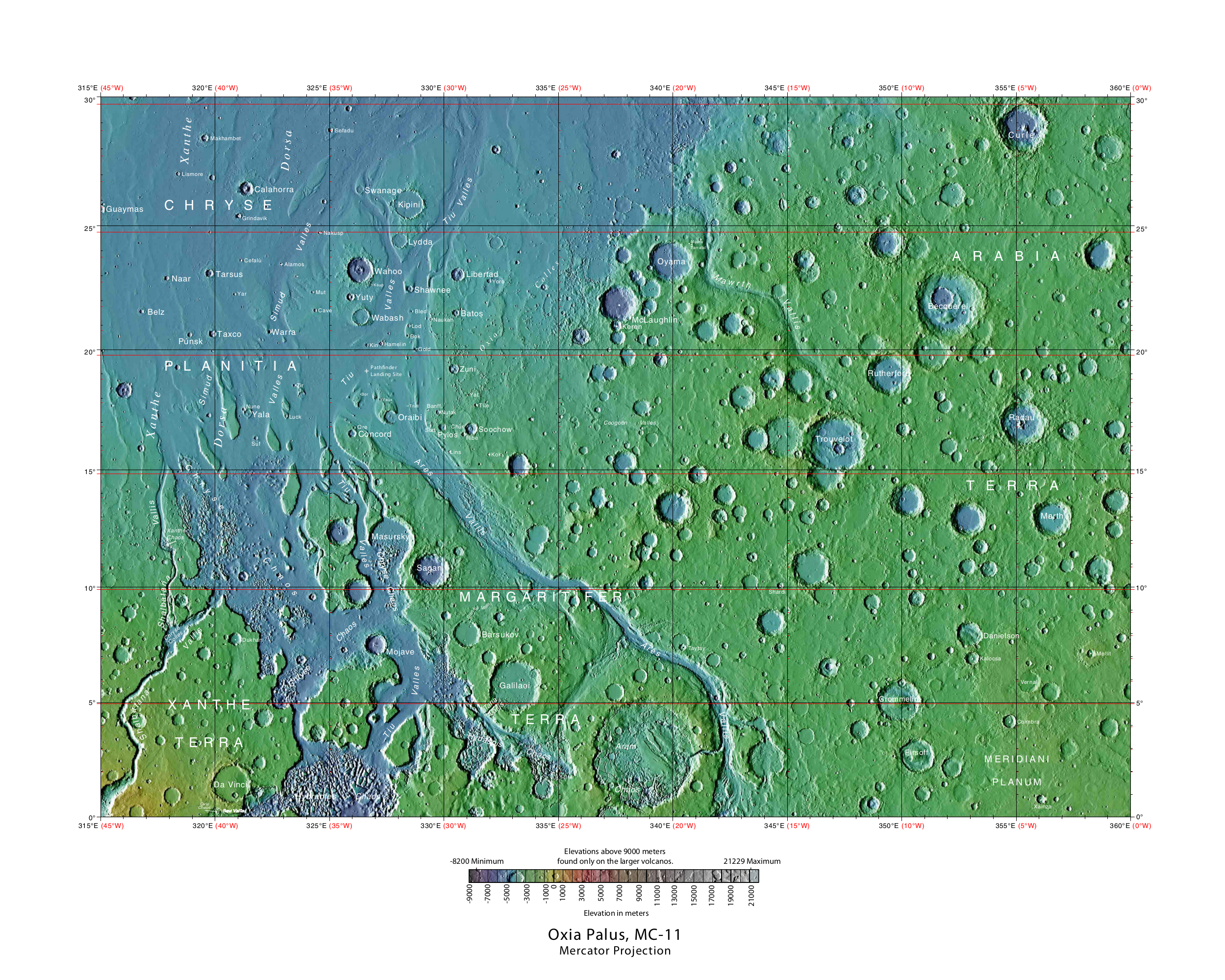 MOLA Topographic Map of Oxia Palus Quadrangle (MC-11) on the planet Mars. NOTE: Converted the original PDF file to a PNG File (via GIMP v2.8.4 program) - and uploaded to Wikimedia Commons.